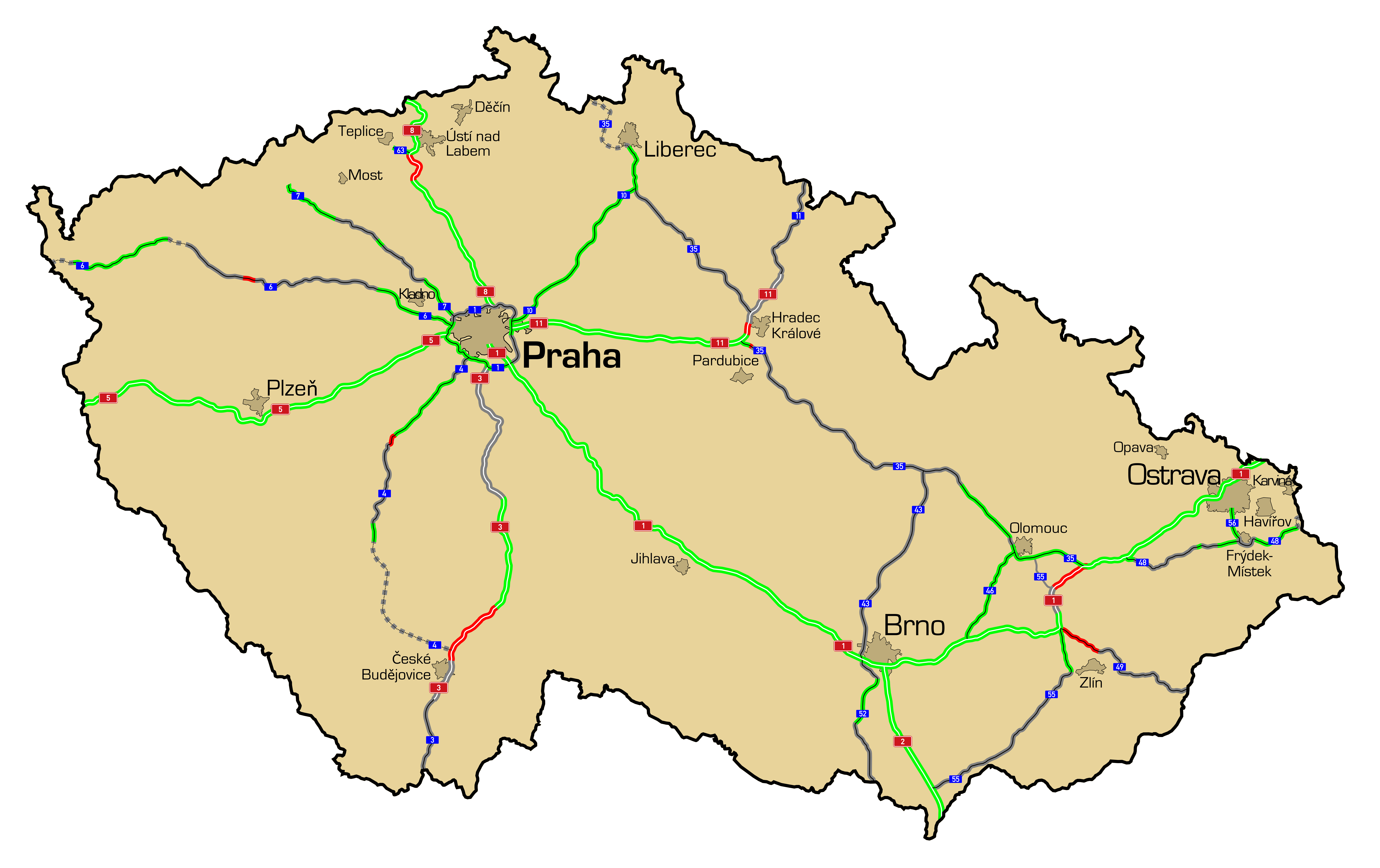 Map of motorways and expressways network in the Czech Republic. green - opened red - under construction gray - planned